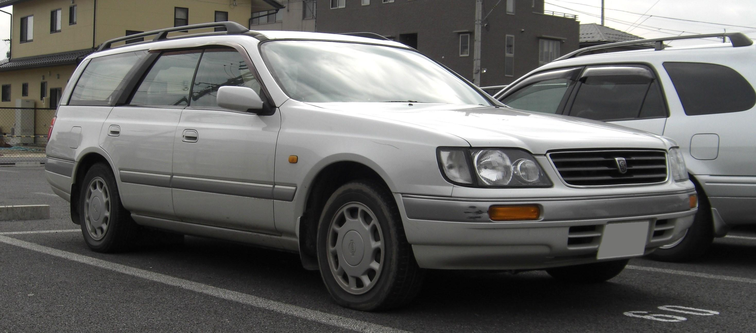 NISSAN Stagea